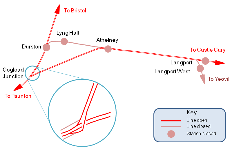 A diagram of the railway lines around Cogload Junction and Durston station, Somerset, England.